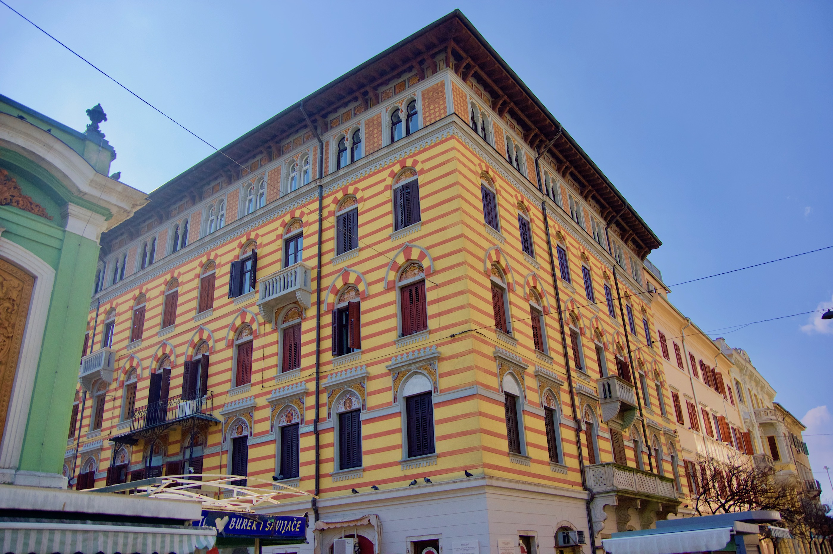 Turkish House on Rijeka Market